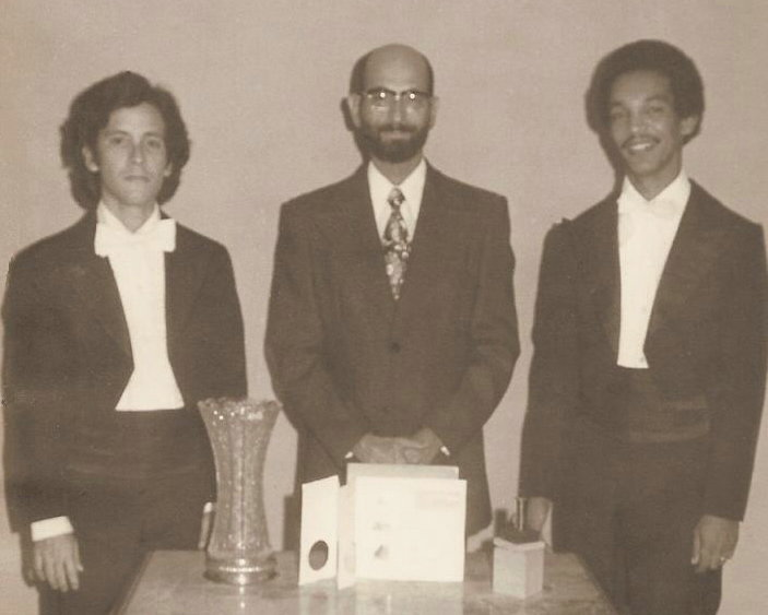 Harold Gramatges junto a Roberto Urbay y Alberto Corrales, Bratislava, Eslovaquia